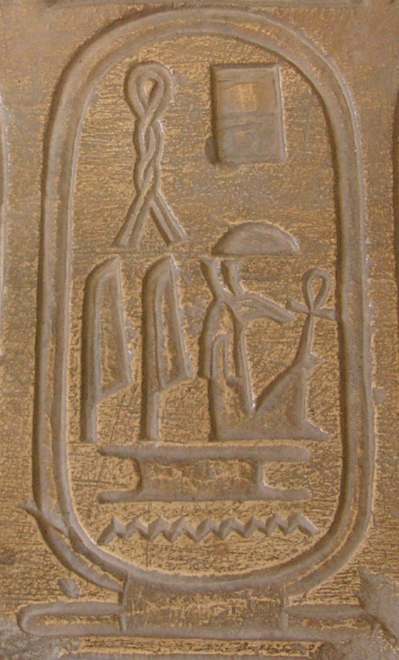 Cartouche with name for Seti I, (Sa-Re)